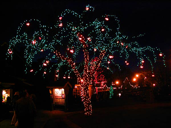 Peddler's Village is a 42 acre 18th century style gathering place in Bucks County, Pennsylvania. It has shopping, dining, lodging, festivals, craft competitions and an antique carousel. The complex is also used for weddings, holiday parties, reunions, retirement parties, picnics, and corporate meetings. Special events and seasonal festivals draw nearly 3 million visitors to Peddler's Village each year. The complex is located in Lahaska, Pennsylvania near Doylestown and New Hope. Yearly events include a watermelon fest, scarecrow competition, apple festival, gingerbread house competition, Christmas festival, quilt competition. The Peddler's Village Strawberry Festival is held on the first weekend in May since 1969. Source: Wikipedia